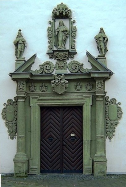 Nordportal St. Walburga in Meschede, Germany.